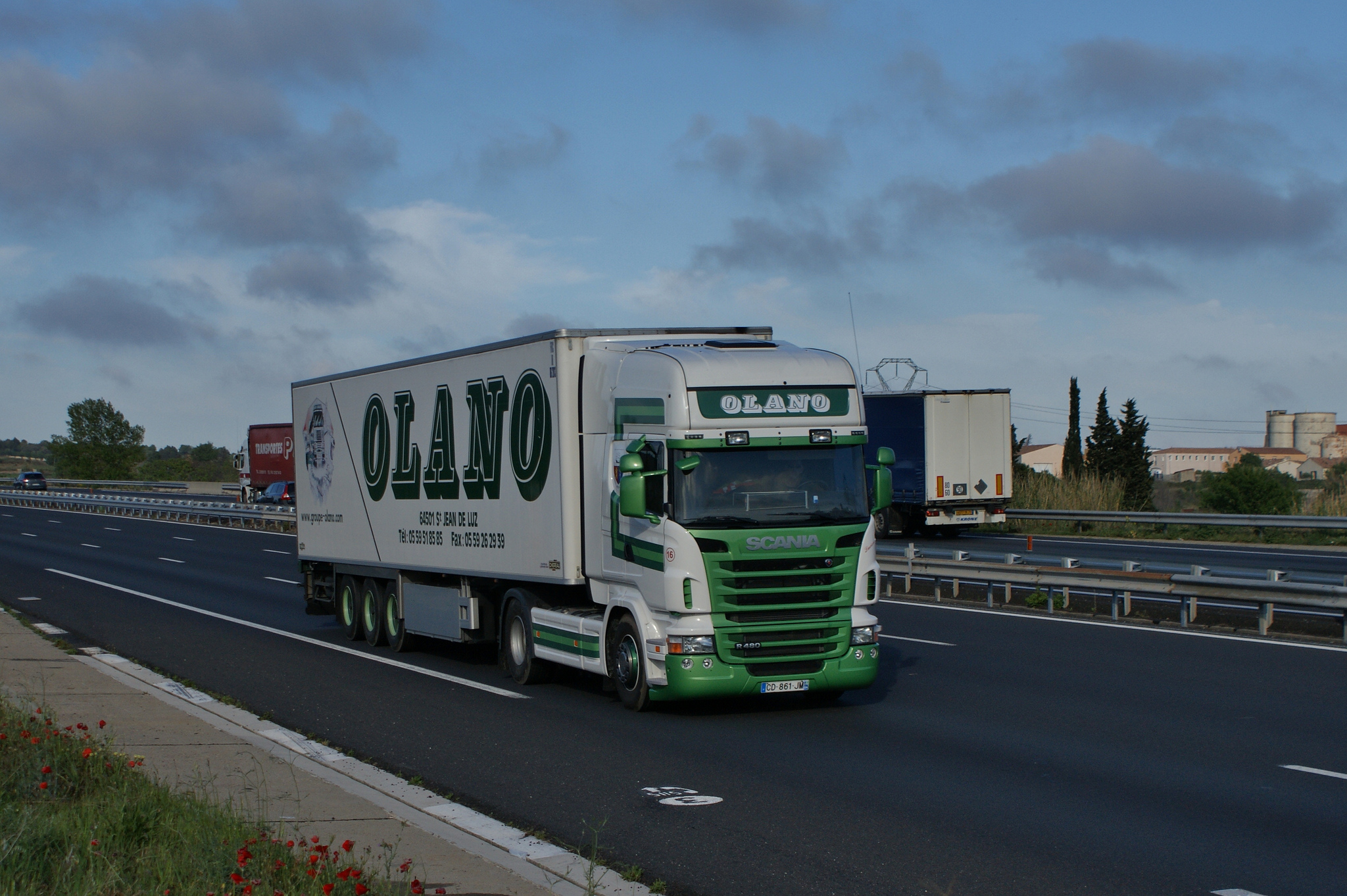 Olano Scania R480